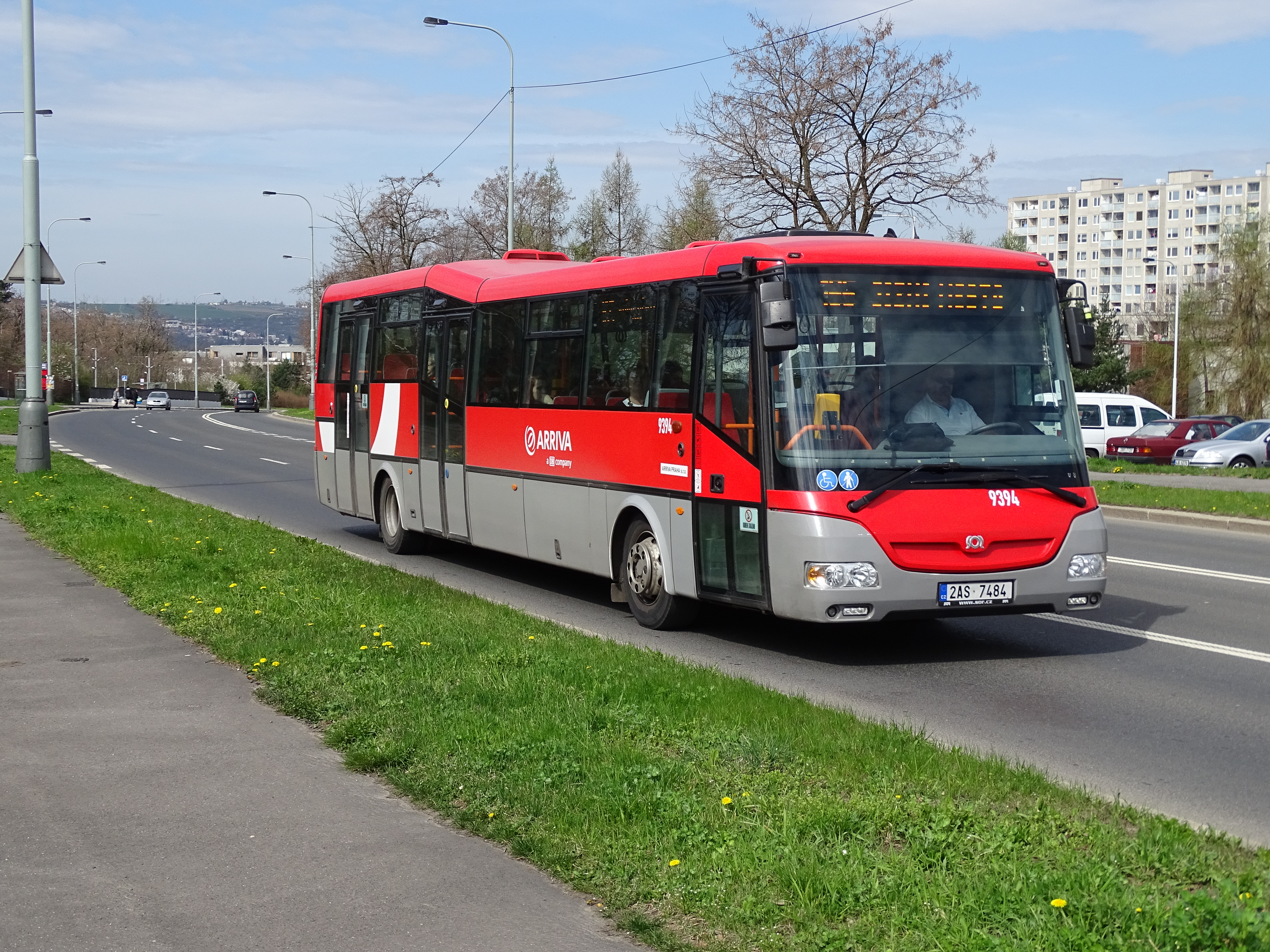 Prague-Modřany, Czech Republic. Generála Šišky street, a bus SOR BN 12 of Arriva Praha.